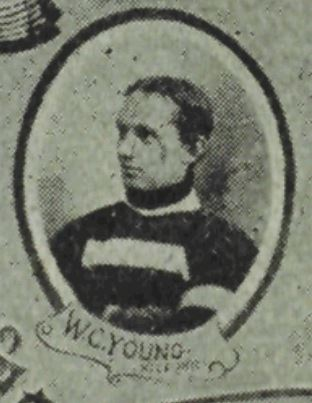 Crop photo of Ottawa Hockey Club 1896-1897